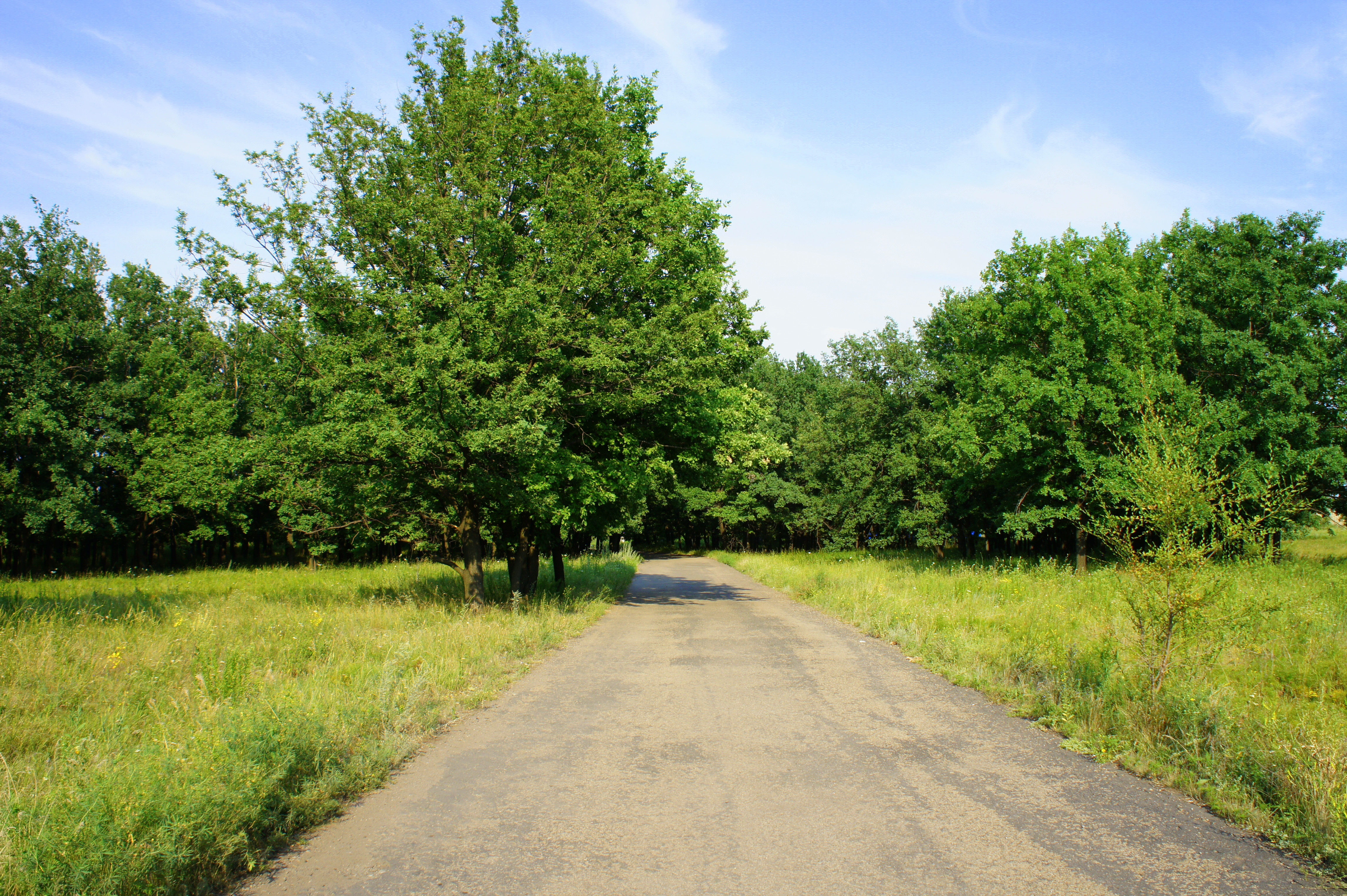 The main road to Slavnoe village (Donetsk district, Ukraine)